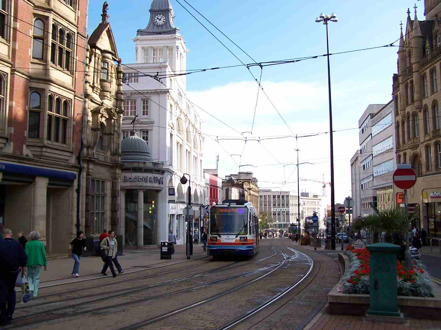 View east along part of High Street, Sheffield, South Yorkshire. The white building centre left is Kemsley House.